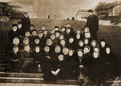 Kosin.Father.1996